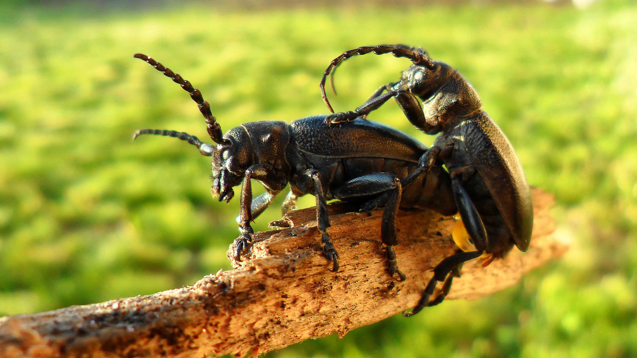 Mating Dorcadion aethiops, Debrecen-Józsa, Hungary